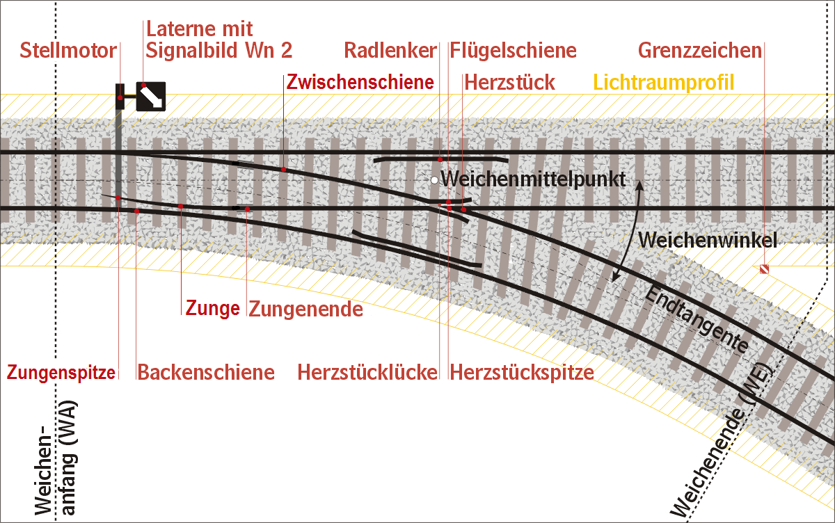 Railroad switch explanation graphic (german)